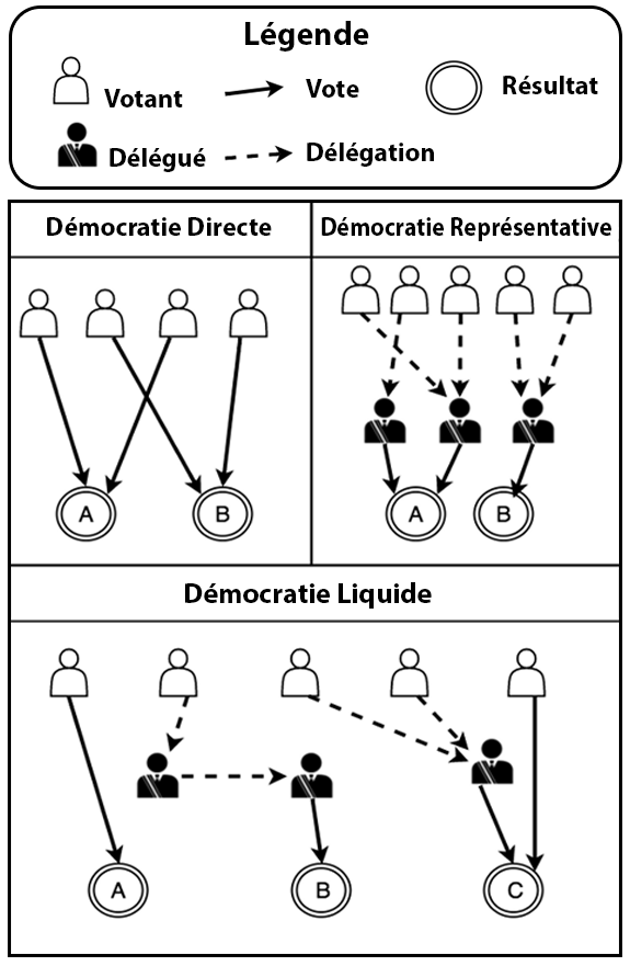 Representation of liquid democracy (french)